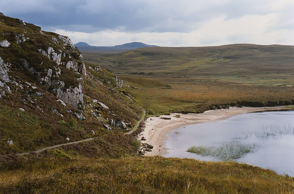 The eastern shore of Loch Braigh Horrisdale The track from Shieldaig becomes a path which descends to brush the eastern shore.